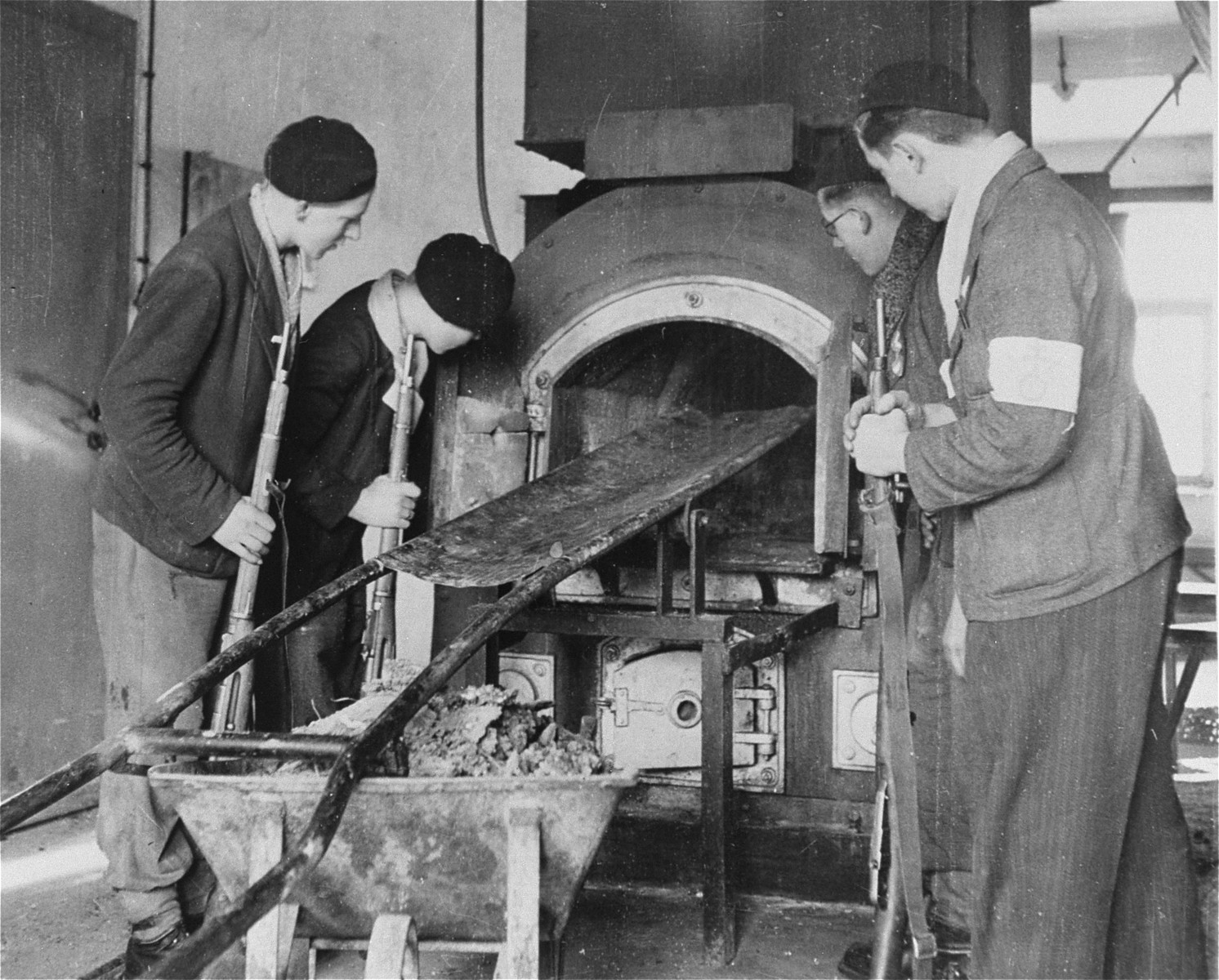 see title